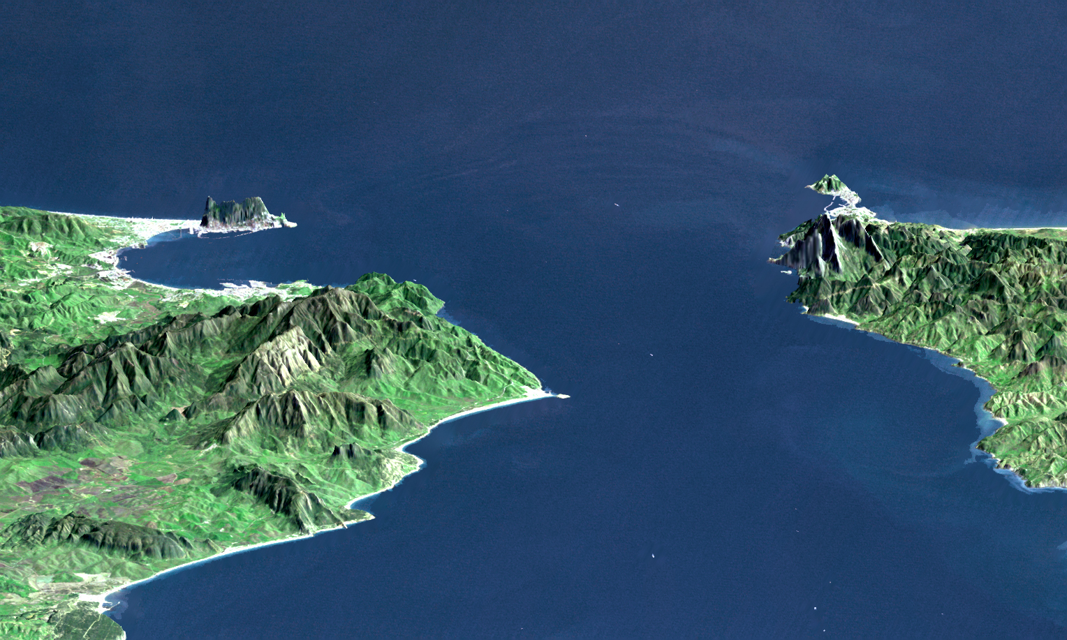 This perspective view shows the Strait of Gibraltar, which is the entrance to the Mediterranean Sea from the Atlantic Ocean. Europe (Spain) is on the left. Africa (Morocco) is on the right. The Rock of Gibraltar, administered by Great Britain, is the peninsula in the back left.